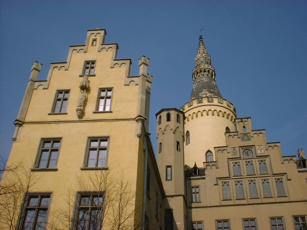 Detail of castle Arenfels in Bad Hönningen in Rhineland-Palatinate, Germany